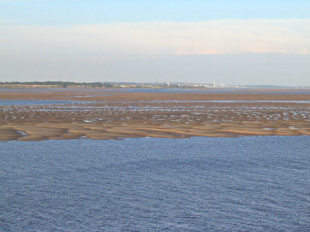 Sandbank in the Mersey Estuary